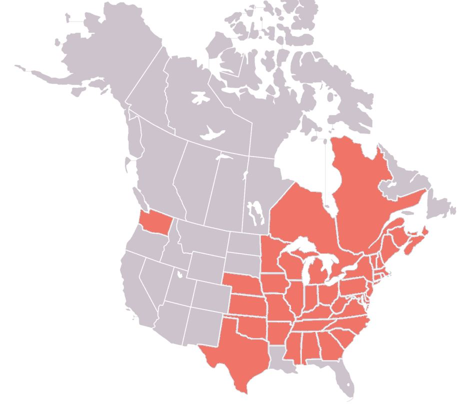 A map showing the extent of Pseudogymnoascus destructans, the fungus causing widespread bat mortality in North America via white-nose syndrome. Affected states and provinces are shaded.